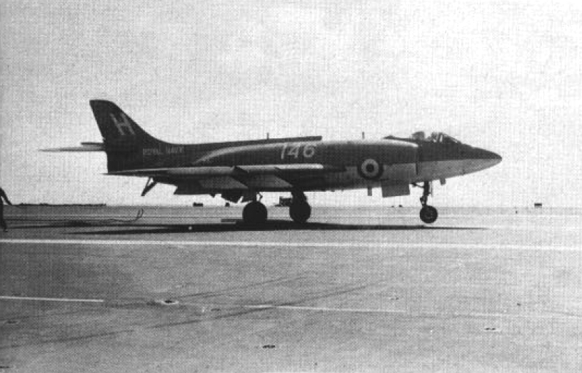 A Royal Navy Supermarine Scimitar F.1 from 803 Naval Air Squadron, assigned to the aircraft carrier HMS Hermes (R12), after landing on deck of the U.S. Navy aircraft carrier USS Forrestal (CVA-59) in the Mediterranean Sea, circa 1962. The U.S. Navy carriers Forrestal and USS Enterprise (CVAN-65) were conducting joint operations with Hermes and HMS Centaur (R06).